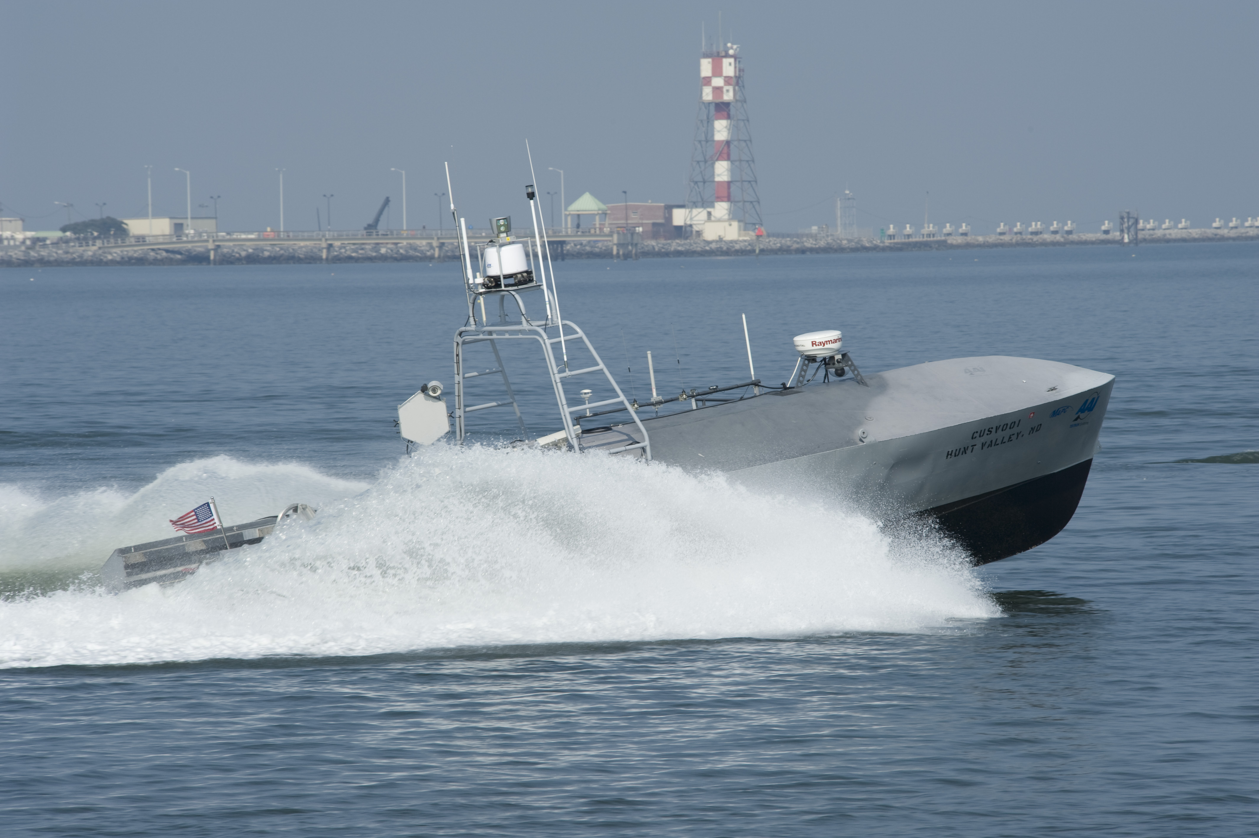 FORT MONROE, Va. (July 20, 2011) A common unmanned surface vehicle patrols for intruders during Trident Warrior 2011. The experimental boat can operate autonomously or by remote. The Trident Warrior experiment, directed by U.S. Fleet Forces Command, temporarily deploys advanced capabilities on ships to collect real-world data and feedback during an underway experimentation period. (U.S. Navy photo by Mass Communication Specialist Seaman Scott Youngblood/Released)